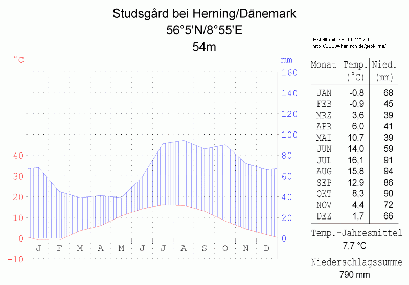 climate chart in the format by Walther and Lieth, metric, °Celsisus and millimeters, made with Geoklima 2.1